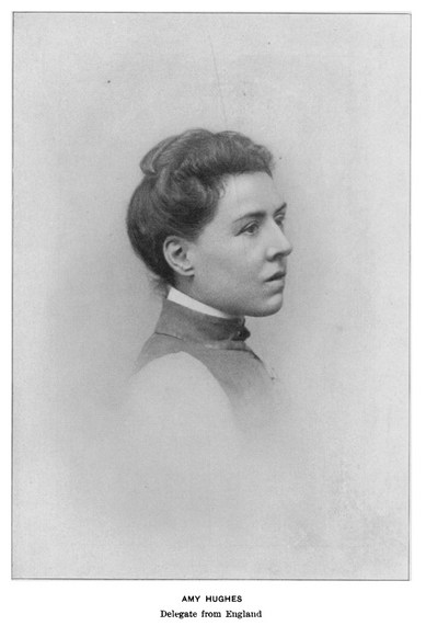 Picture of Amy Hughes, superintendent of the Nurses Cooperation